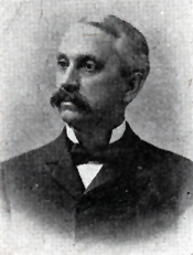 Albert Cole Hopkins, US Representative from Pennsylvania